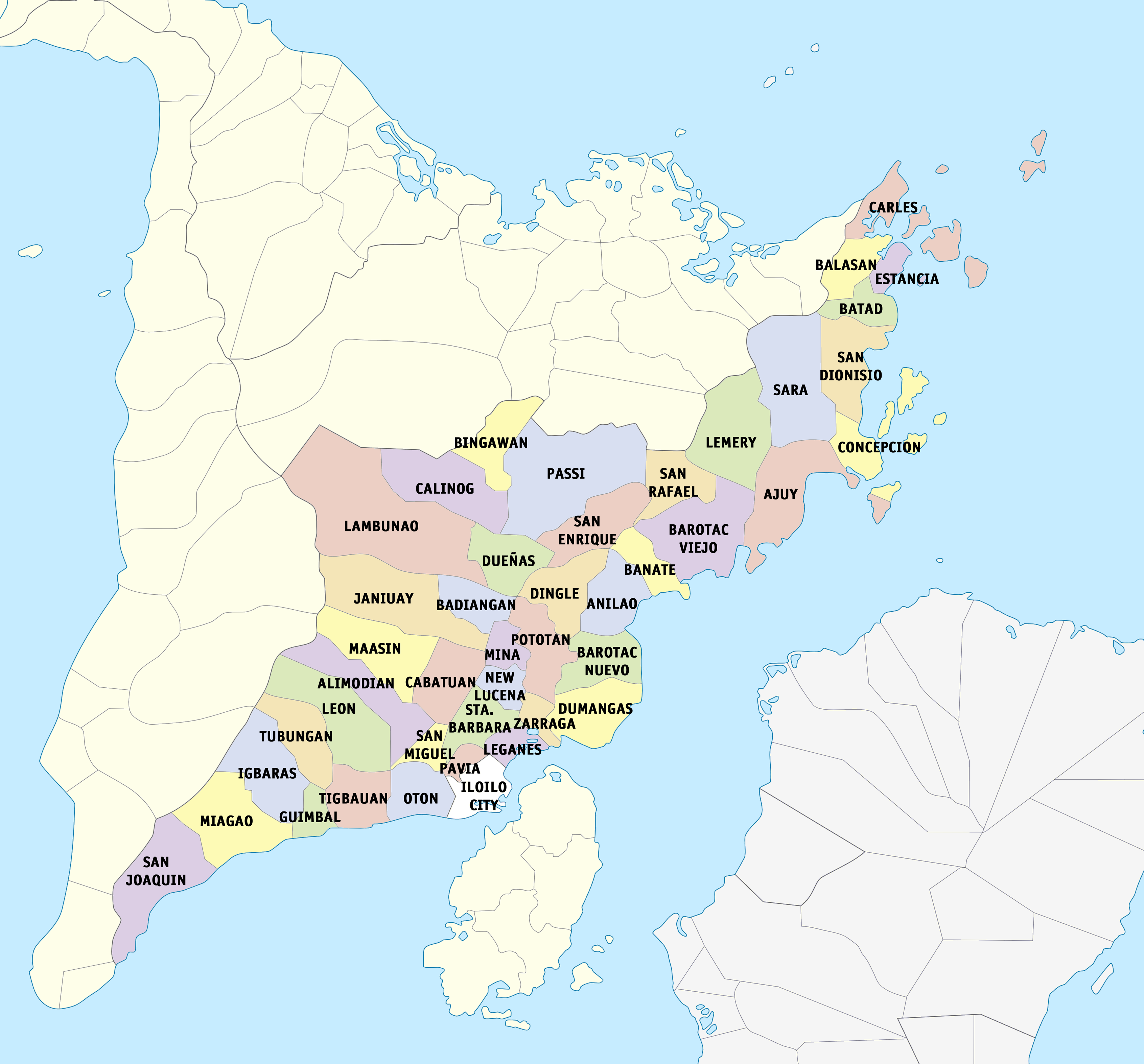 Political map of Iloilo, Philippines